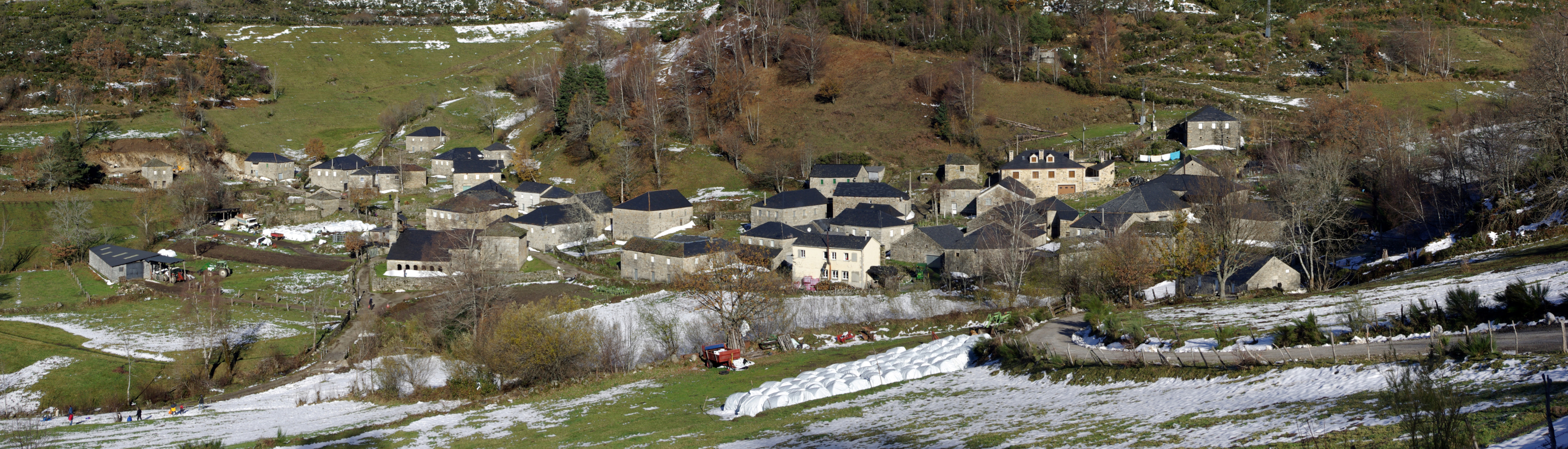 Suarbol, Candín (León, Spain)